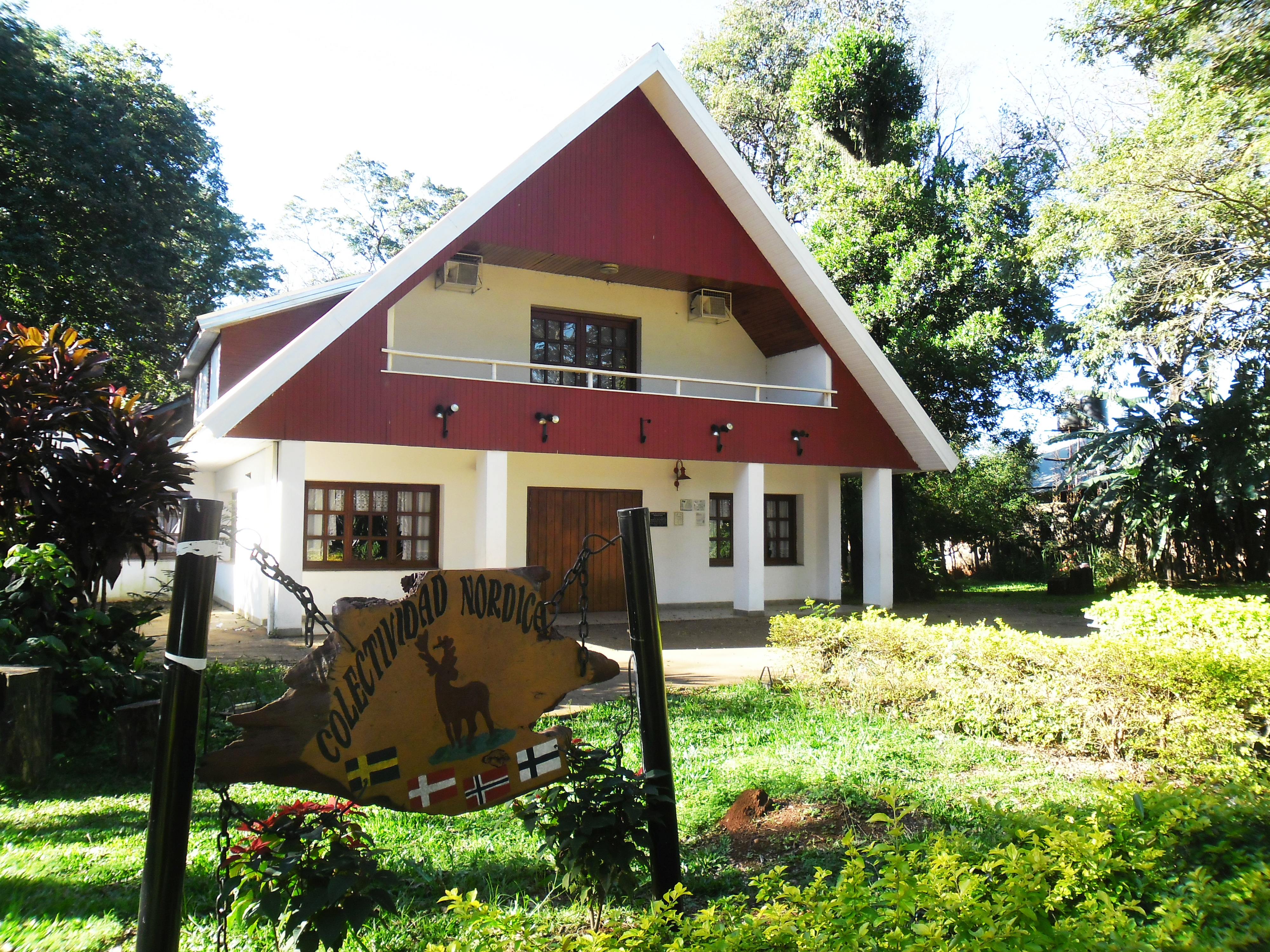 The «Nordic House» in the Park of Nations, Oberá.